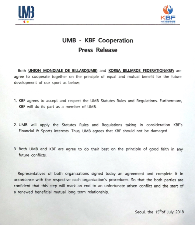 Press release of the UMB/KBF Cooperation on 15 july 2018